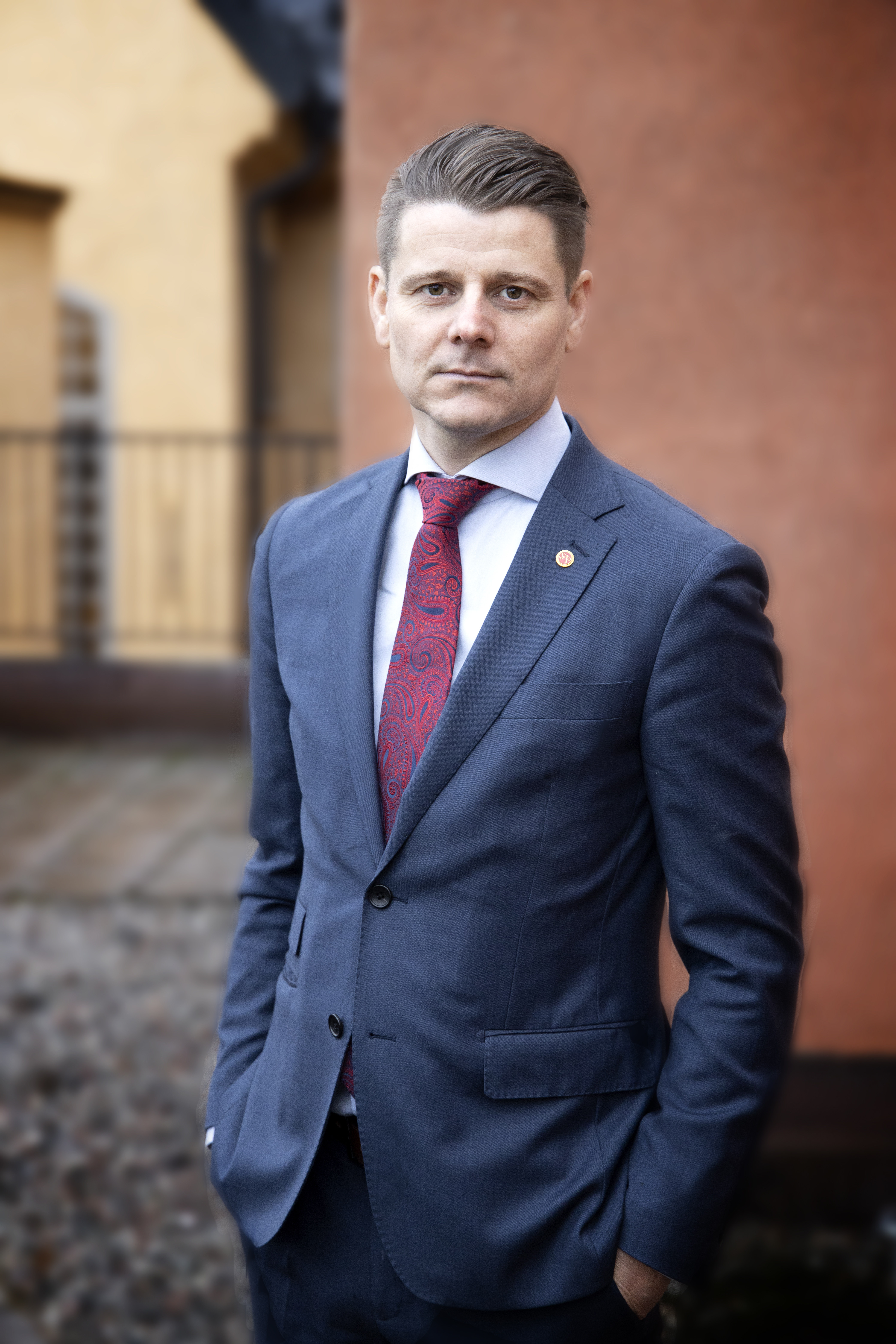 Niklas Karlsson December 2019